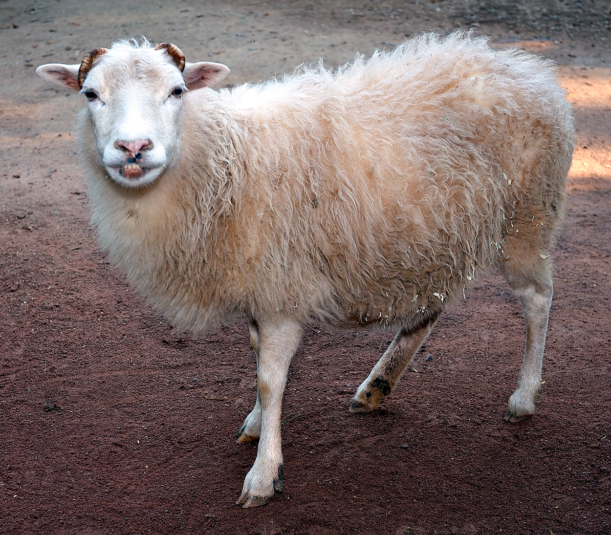 This image shows a Sheep (Ovis aries) of the race "Skudde".